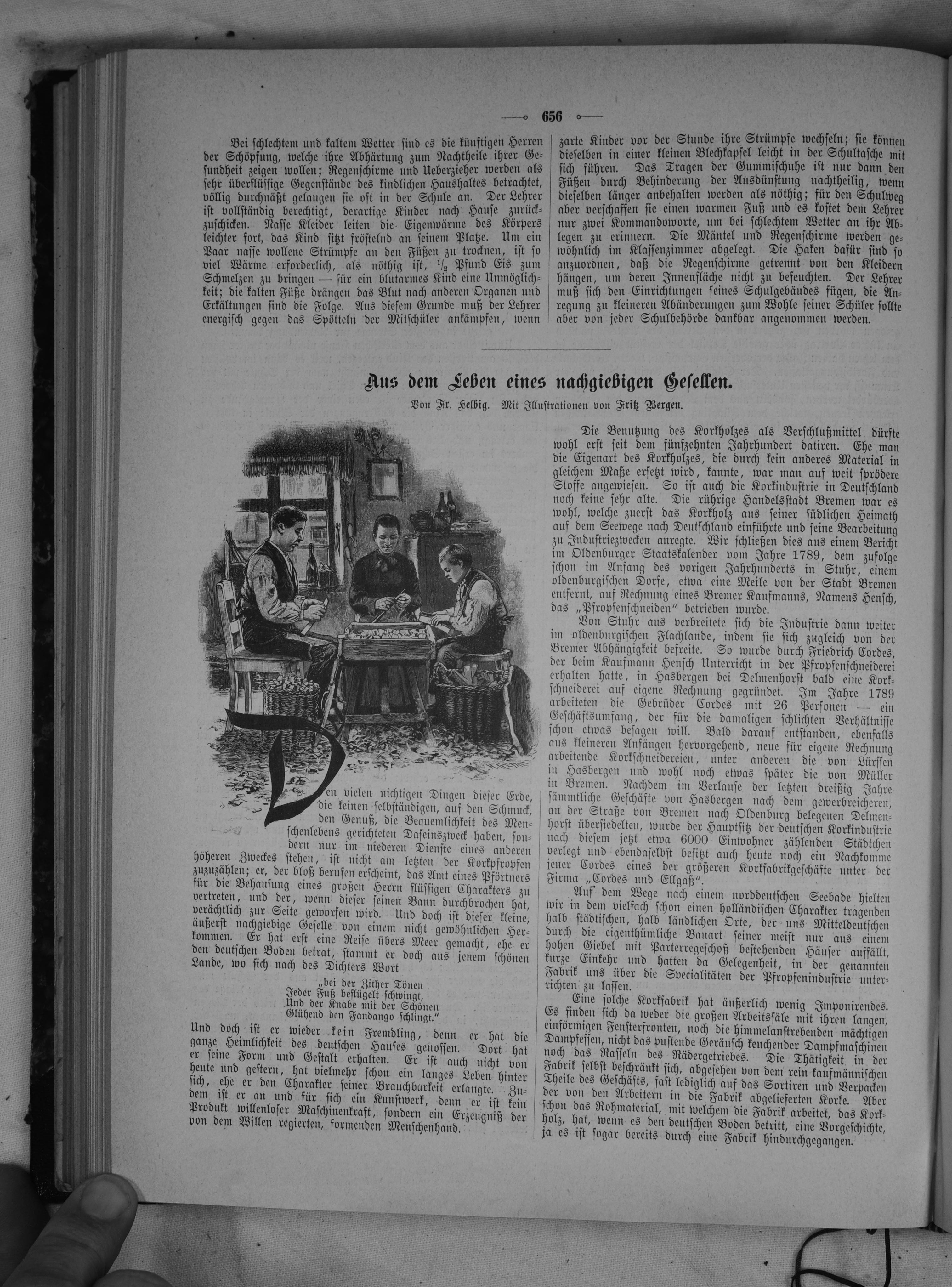 Page 656 from journal Die Gartenlaube for 1888. Extracted image (if any): File:Die Gartenlaube (1888) b 656.jpg - hi res, ~2.5 MB.